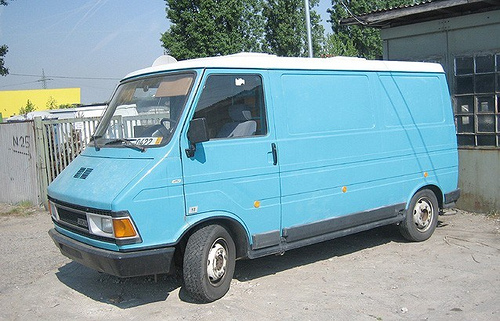 Fiat 242 was a van which was produced by Fiat in the 1970s